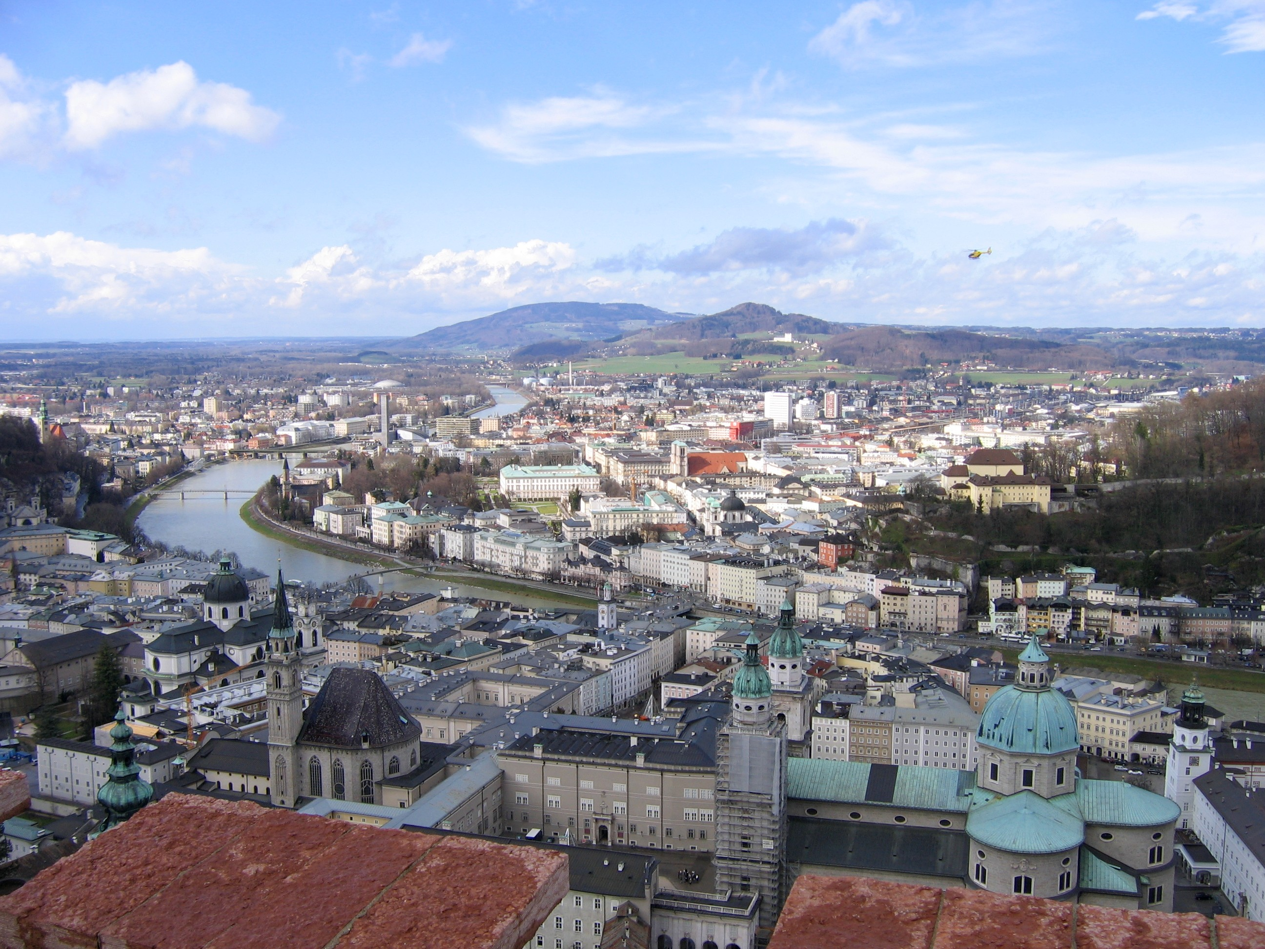 Description: View of Salzburg, own photograph. Date: 03 April 2006 Author: Gr3mi